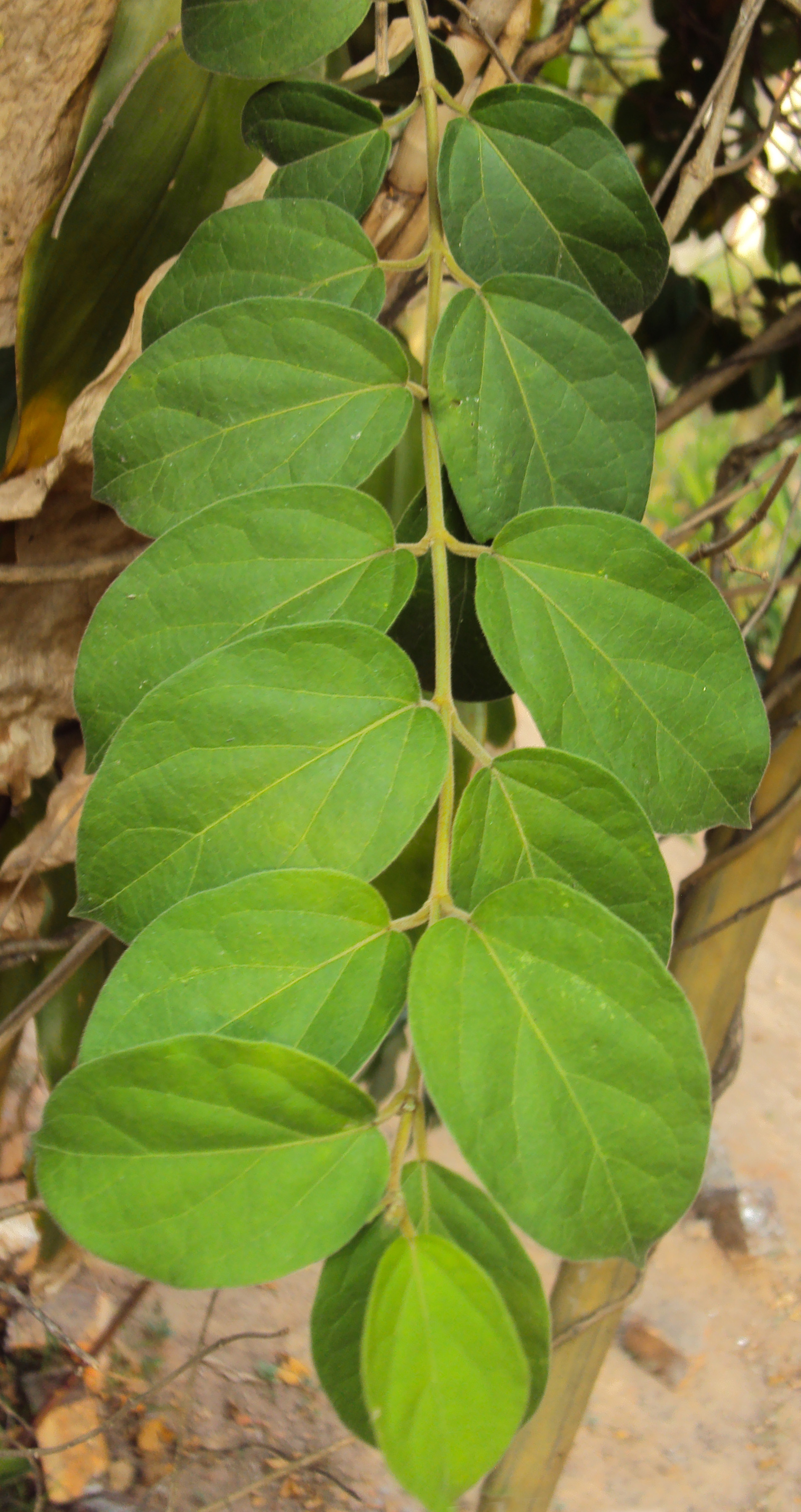 Gymnema sylvestre. ചക്കരക്കൊല്ലി